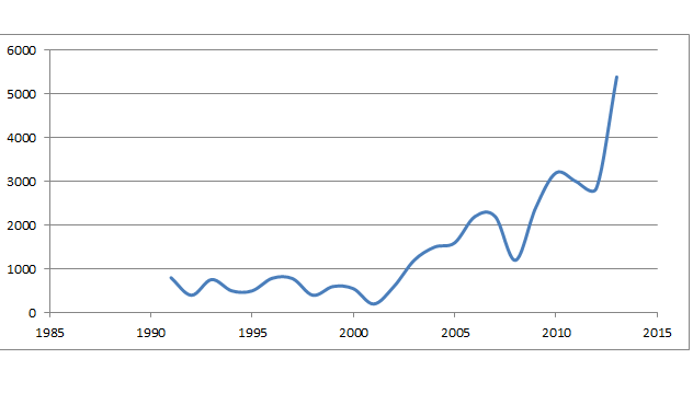 dkdf.